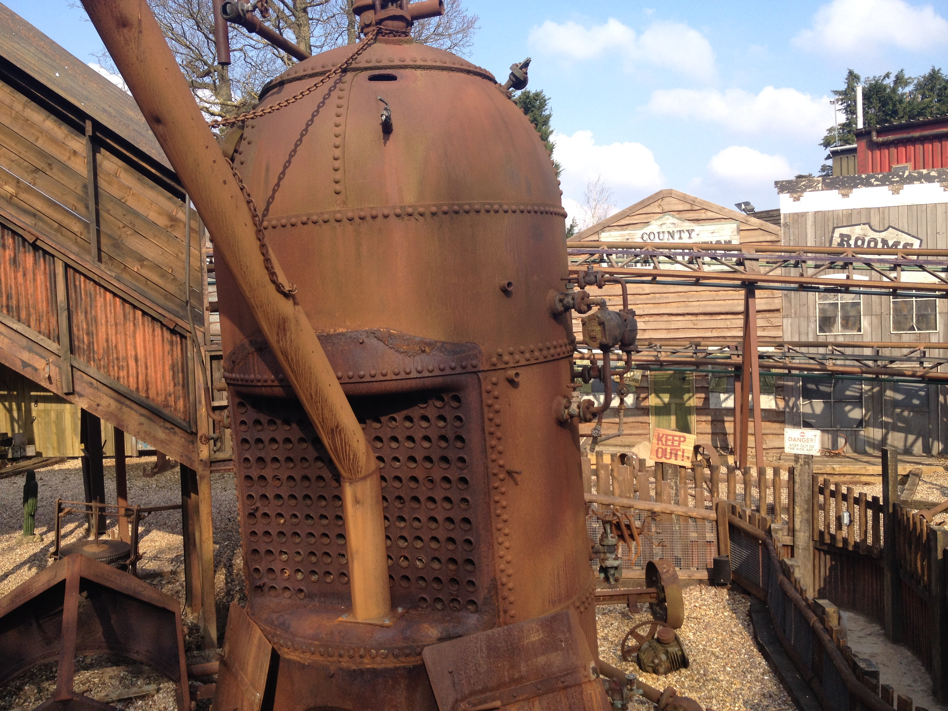 Boiler theming element for the Scorpion Express attraction at Chessington World of Adventures.